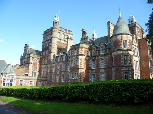 Old Craighouse Asylum, Craiglockhart